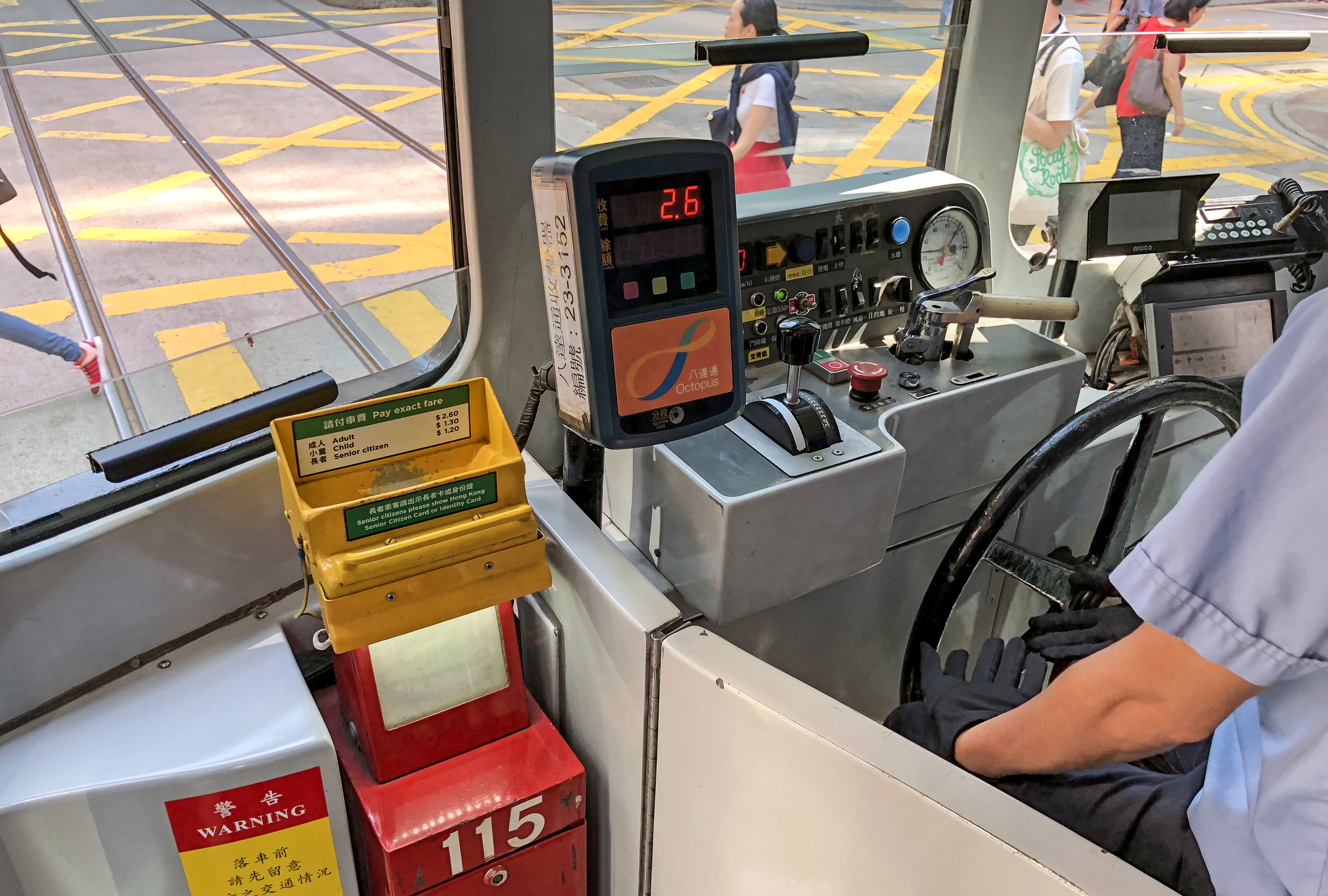 Catch a ride, catch a smile - this tram stops service at Sai Wan Ho Depot.